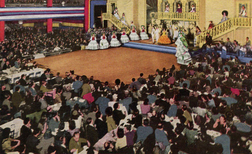 Postcard photo from Mike Todd's Theatre Cafe, which was located on Chicago's North Side.